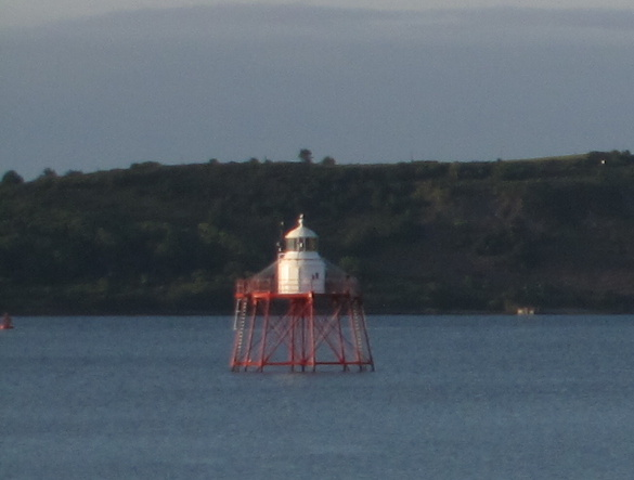 Very early morning view from Cove Fort, County Cork to the mouth of Cork Harbour. The lighthouse is the 19th century Spit Bank Lighthouse. Cropped from original